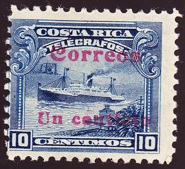 Costa Rica Postage Stamp issue 1911, Telegraph red surcharged 1 centimo. Michel N°77a.